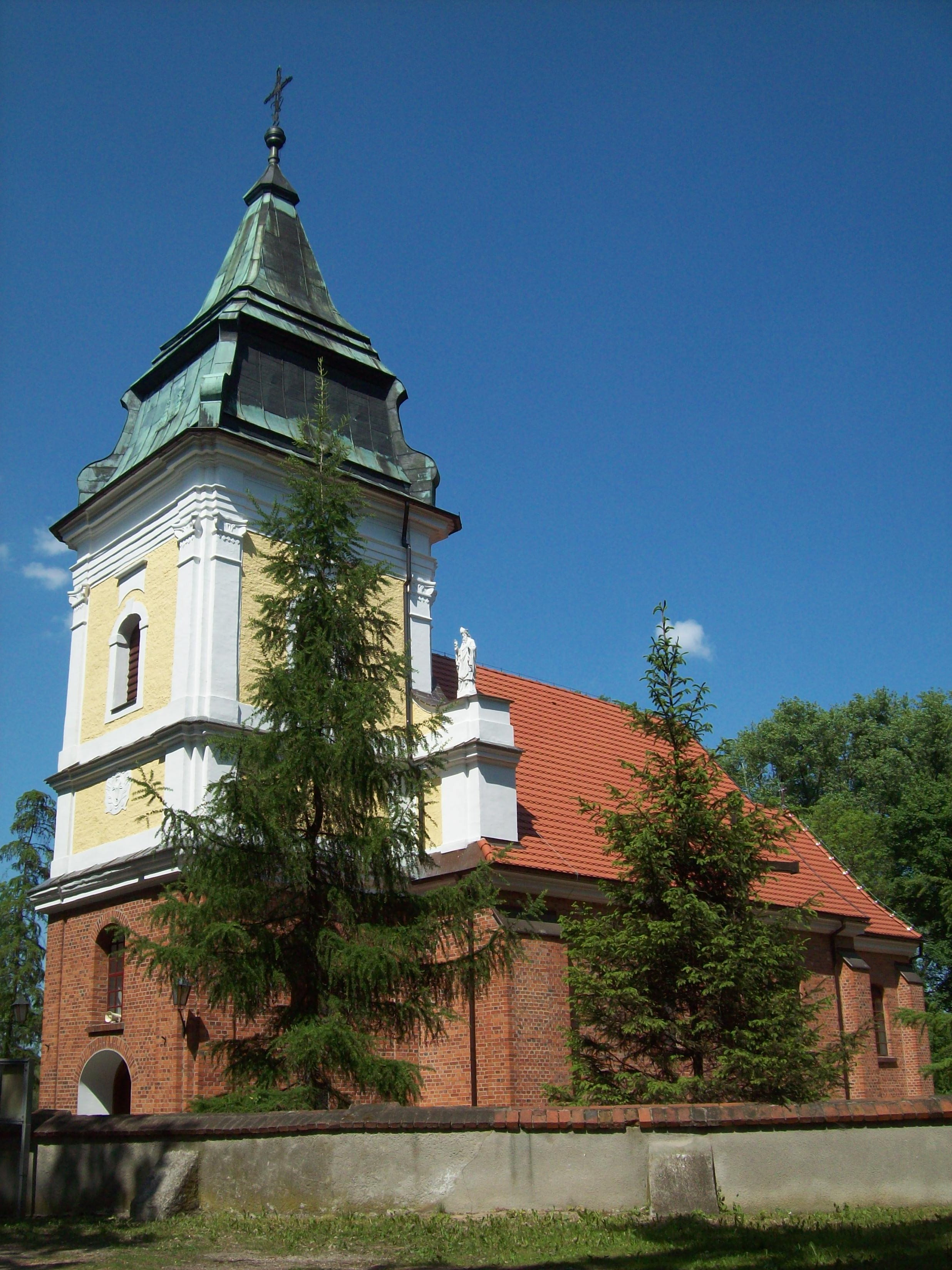 Saint Cross Church, Bieganowo